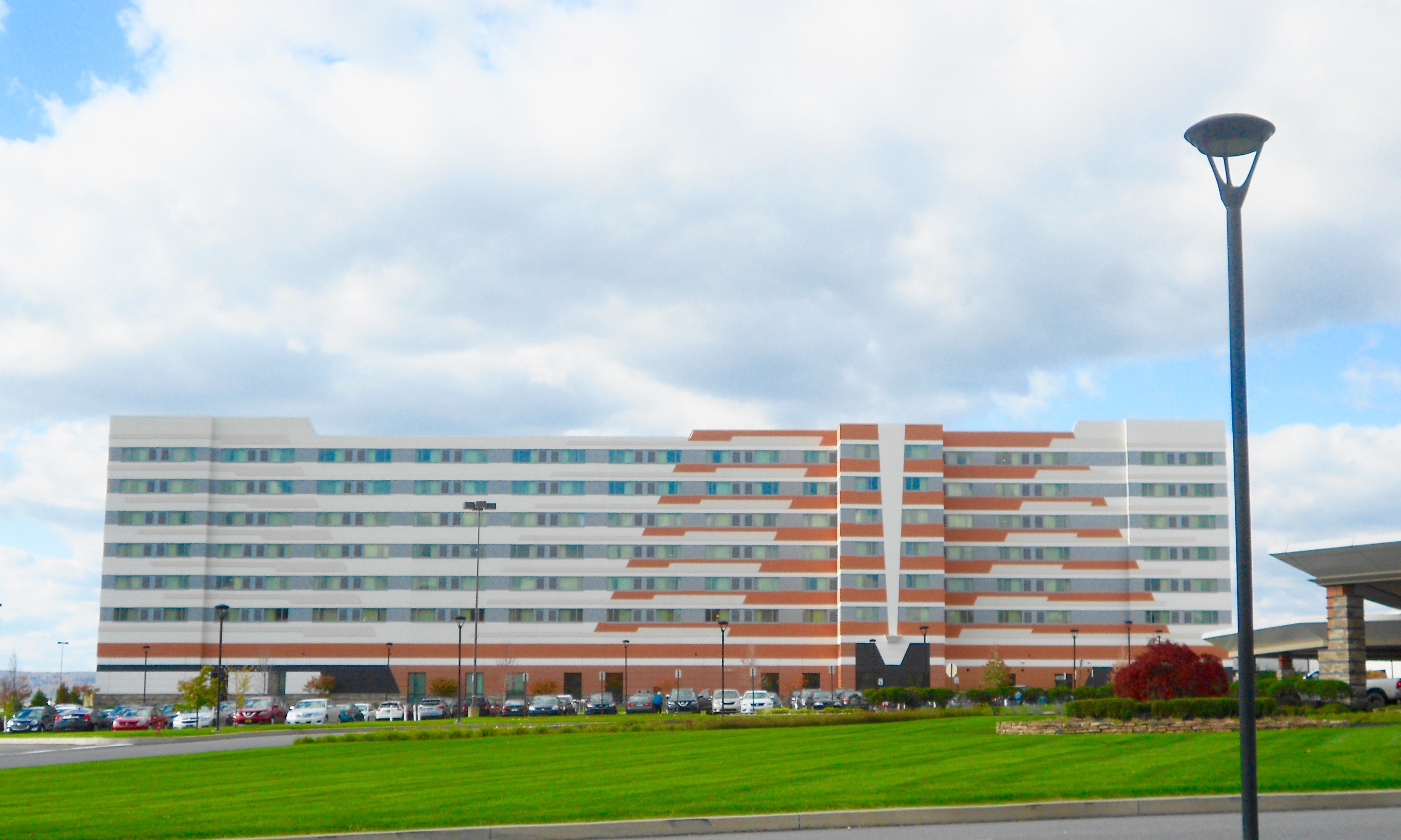 Mohegan Poconos hotel at the casino in Plains Township, Luzerne County, Pennsylvania